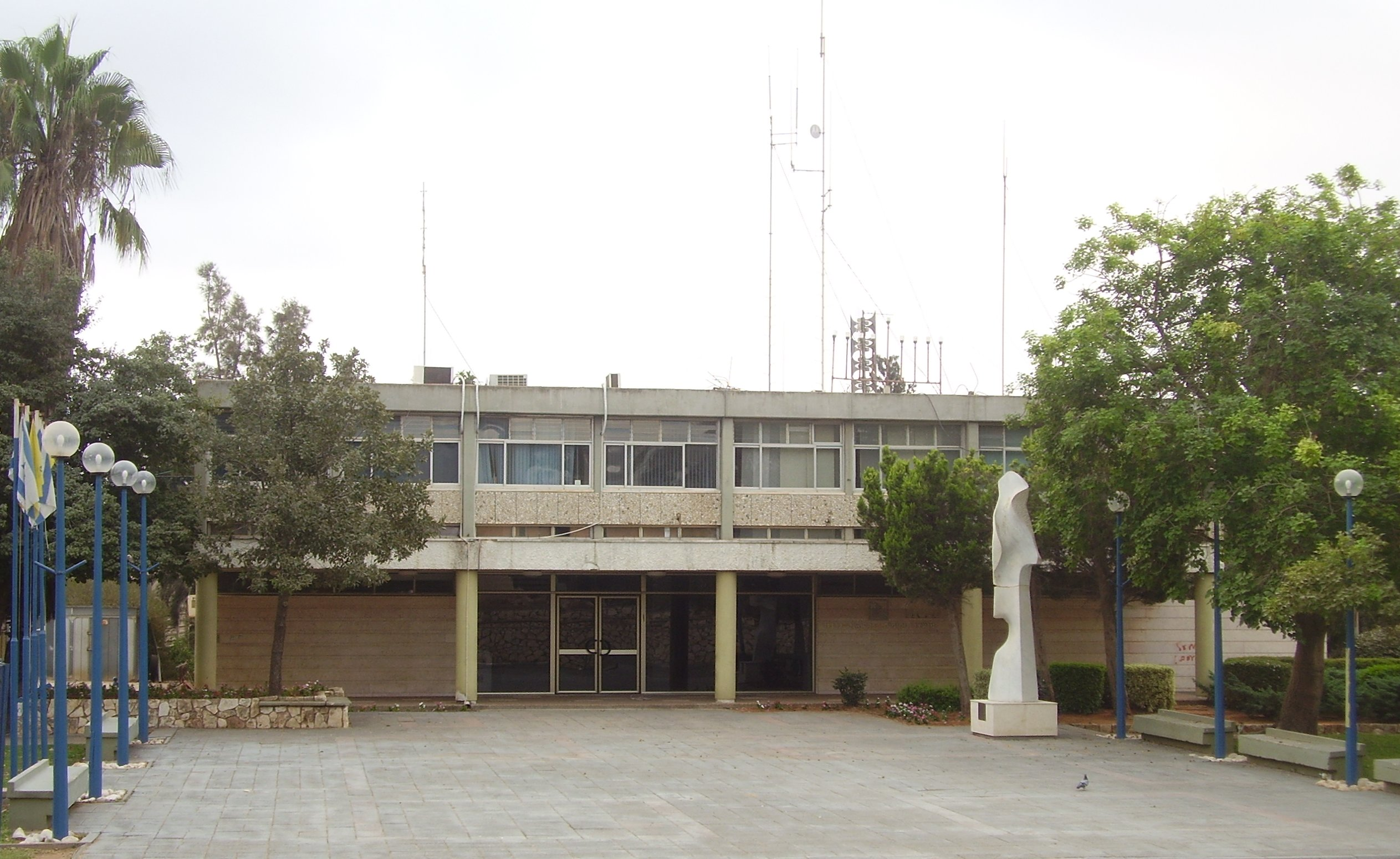 The Pardes Hanna-Karkur municipality building